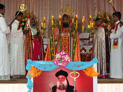 Syro-Malankara Holy Mass, India.